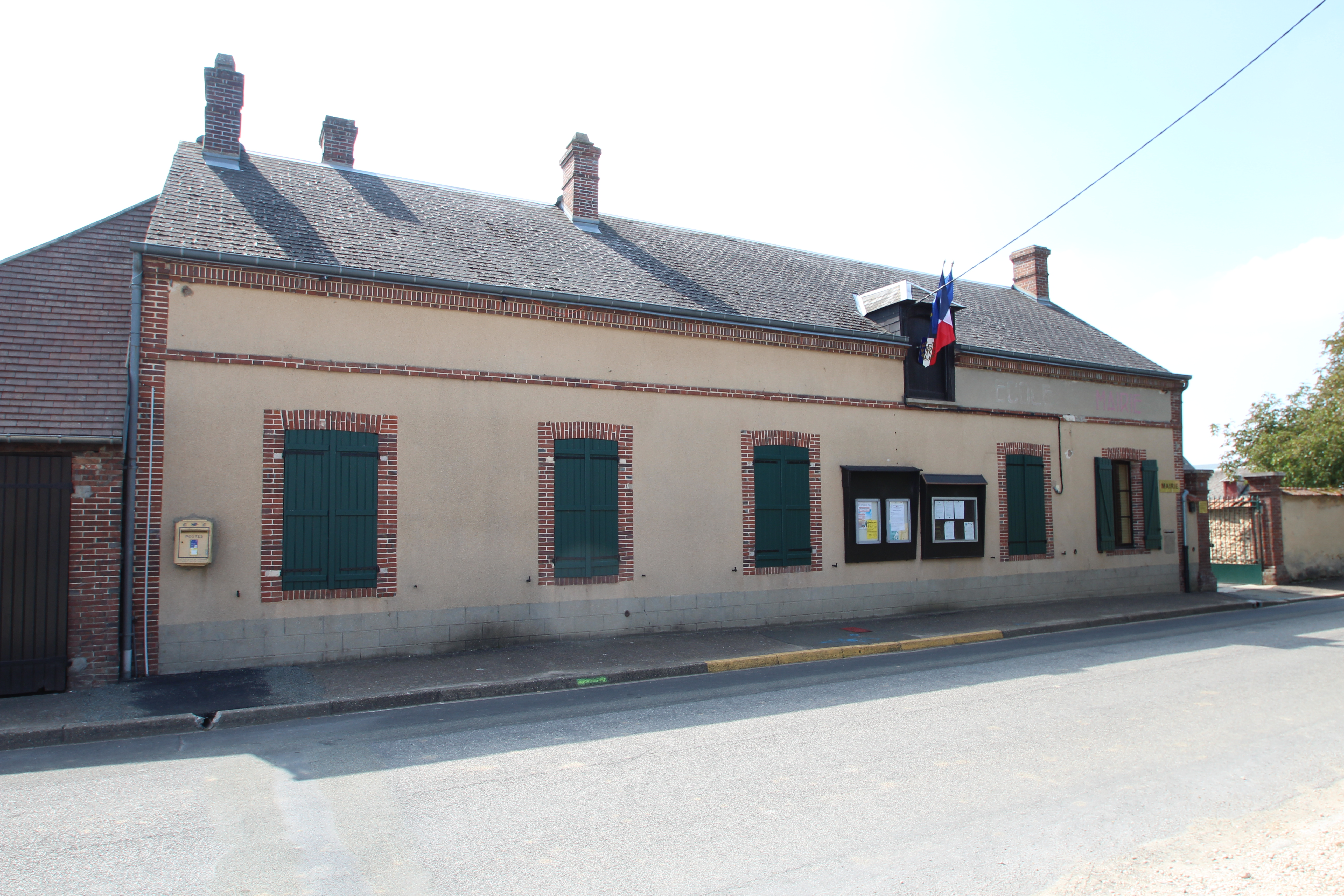 Town hall in Croisilles, Eure-et-Loir, France. Object location48° 41′ 21.58″ N, 1° 30′ 14.36″ E